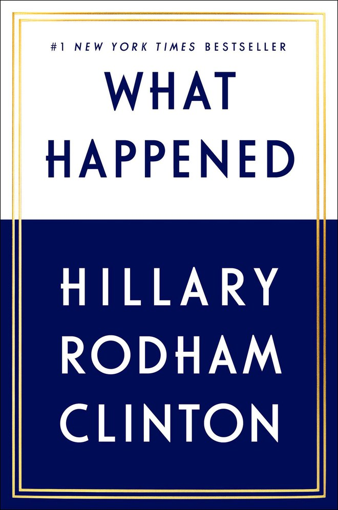 Cover of What Happened, by Hillary Rodham Clinton